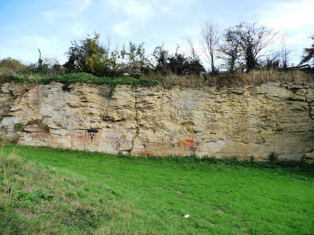 The Eastern face of the former South Elmsall Quarry